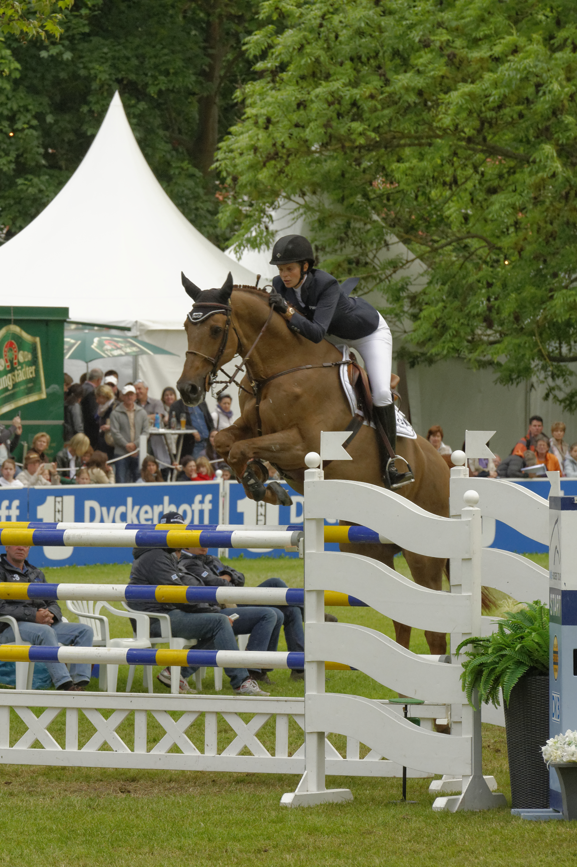 Internationales Pfingstturnier Wiesbaden 2013: Athina Onassis de Miranda mit Babouche The making of this document was supported by the Community-Budget of Wikimedia Germany.